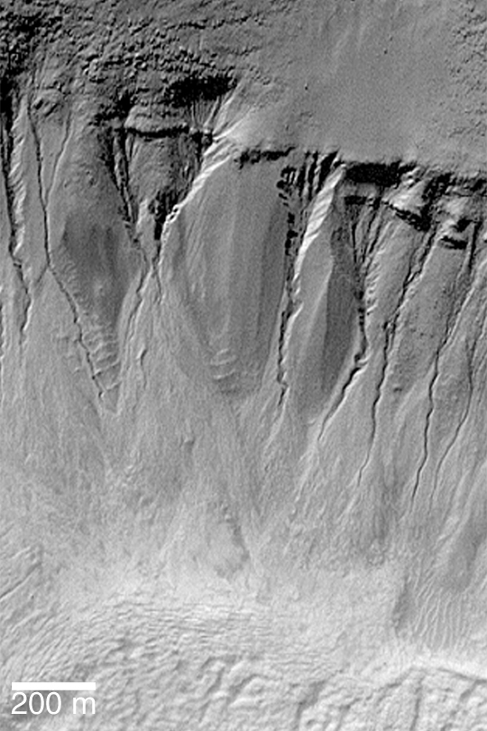 Gullies in Crater Wall